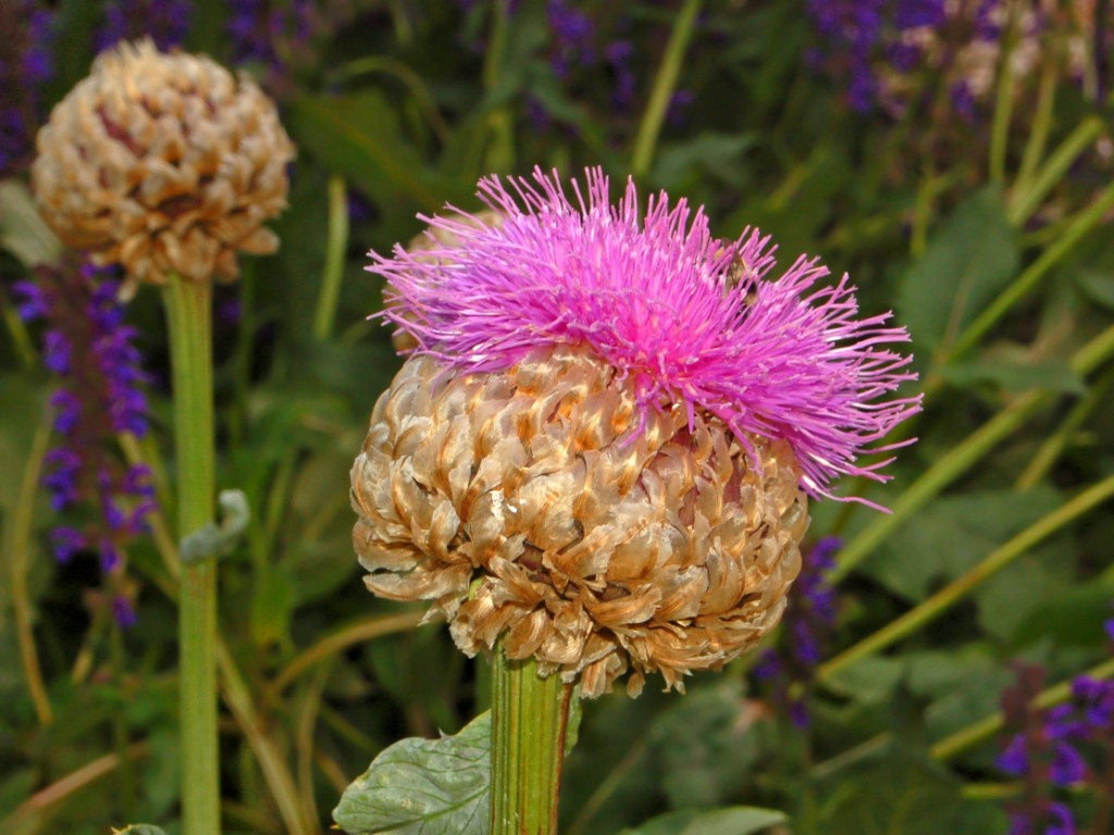 Rhaponticum heleniifolium subsp. heleniifolium - Col du Lautaret, France